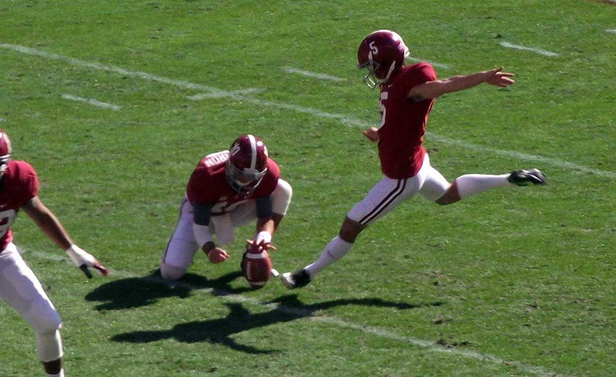 Alabama Crimson Tide football placekicker Jeremy Shelley in motion with A. J. McCarron as holder against the Western Carolina Catamounts.